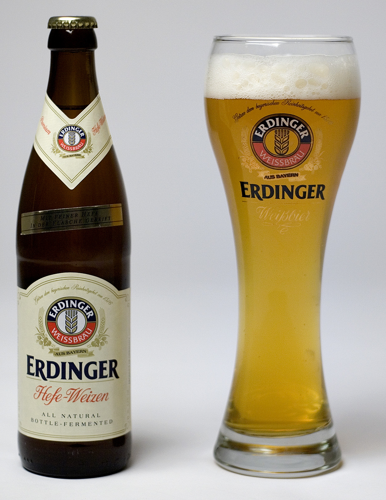 Photo by Randy Oostdyk